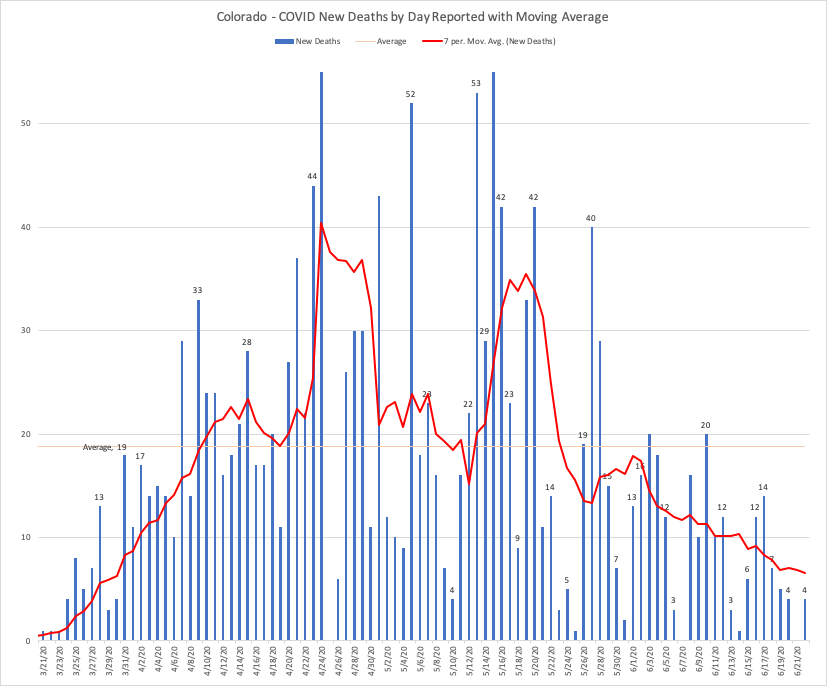 Colorado Deaths from COVID-19 Chart Cases by Day